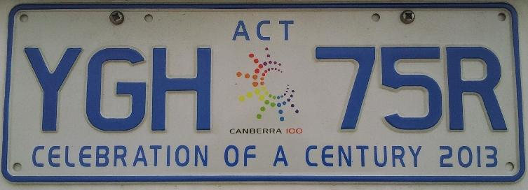 ACT standard-issue centenary plate